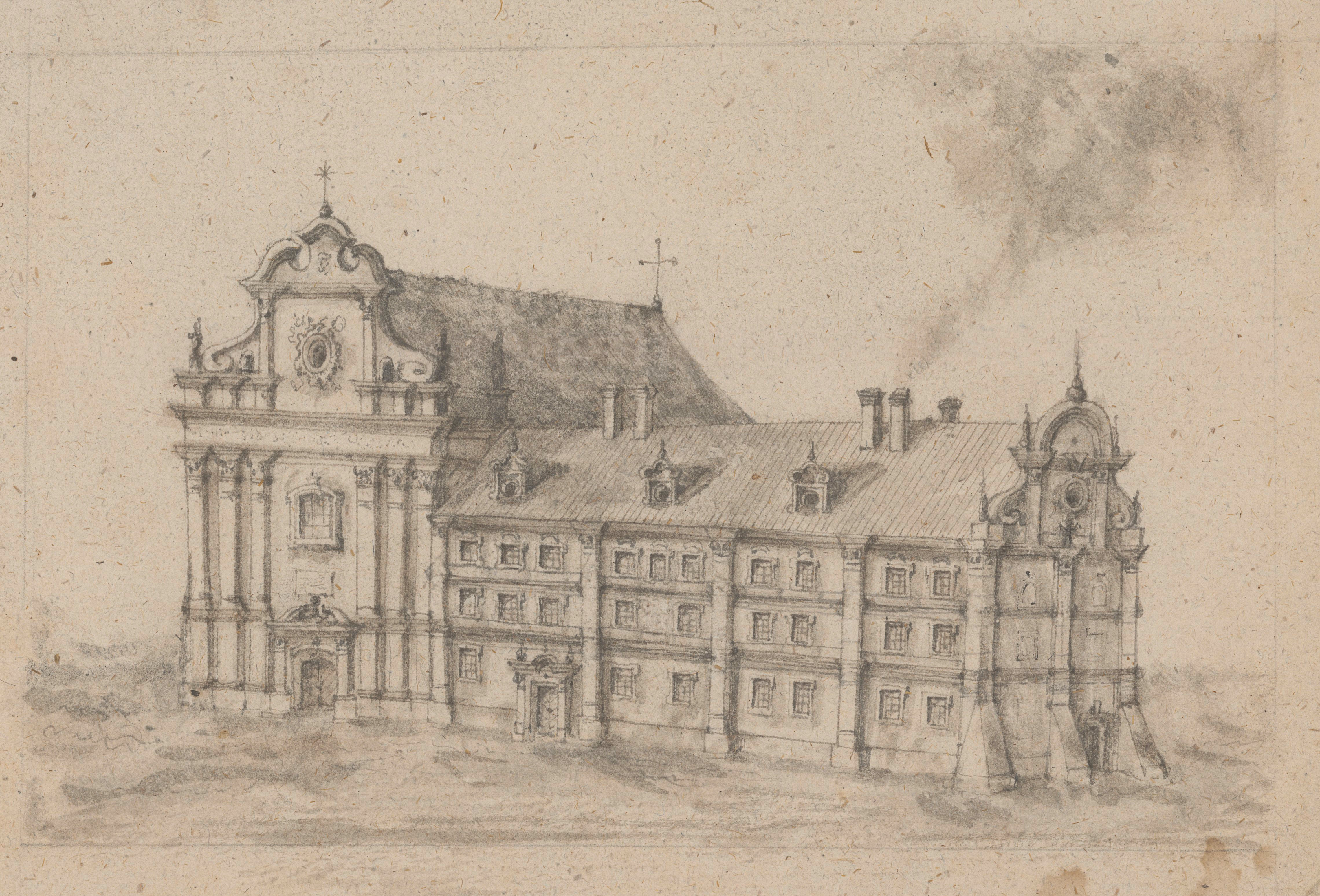 Kościół i klasztor pijarów w Piotrkowie Trybunalskim na grafice z początku XIX wieku.